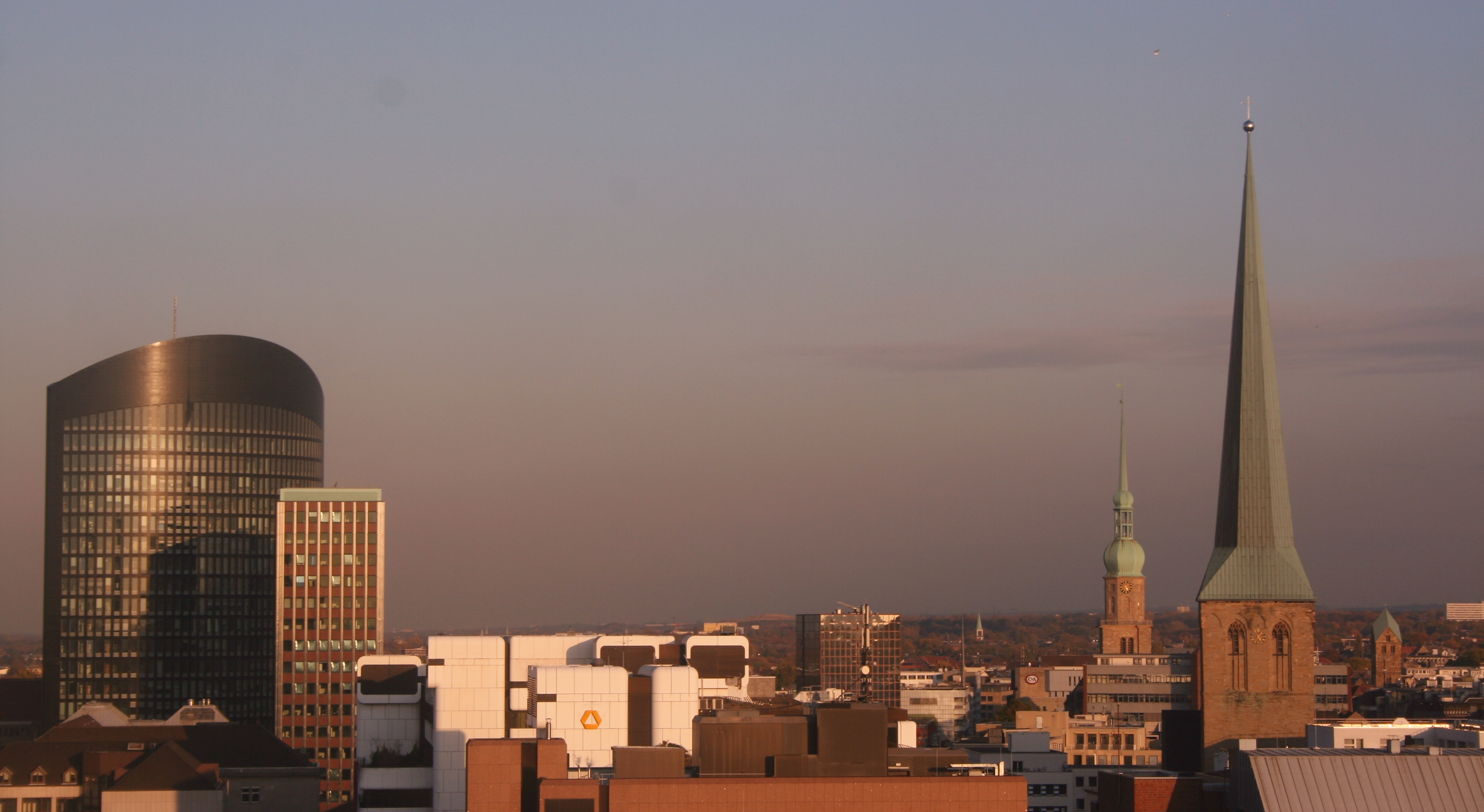 View over the centre of Dortmund.Left to right: RWE Tower, Sparkassen Tower, WestLB Gebäude, Reinoldikirche and Petrikirche.